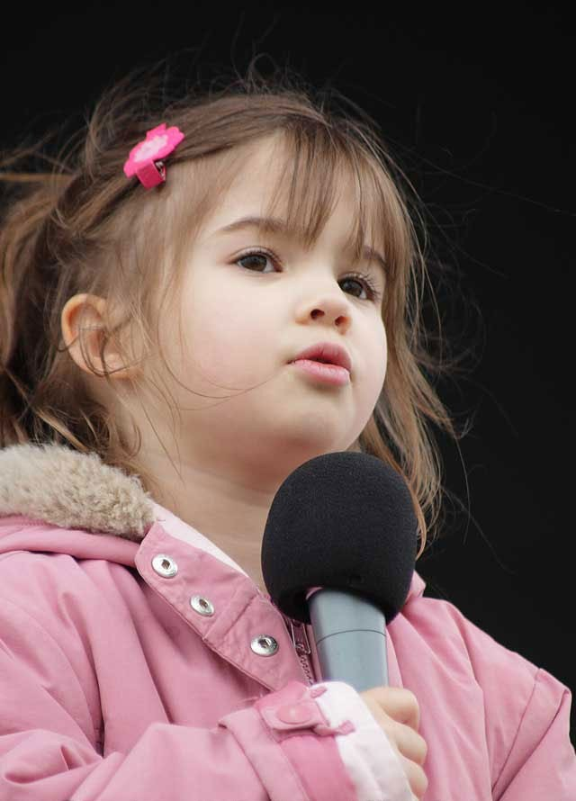 Kaitlyn Maher performing onstage on April 11, 2009